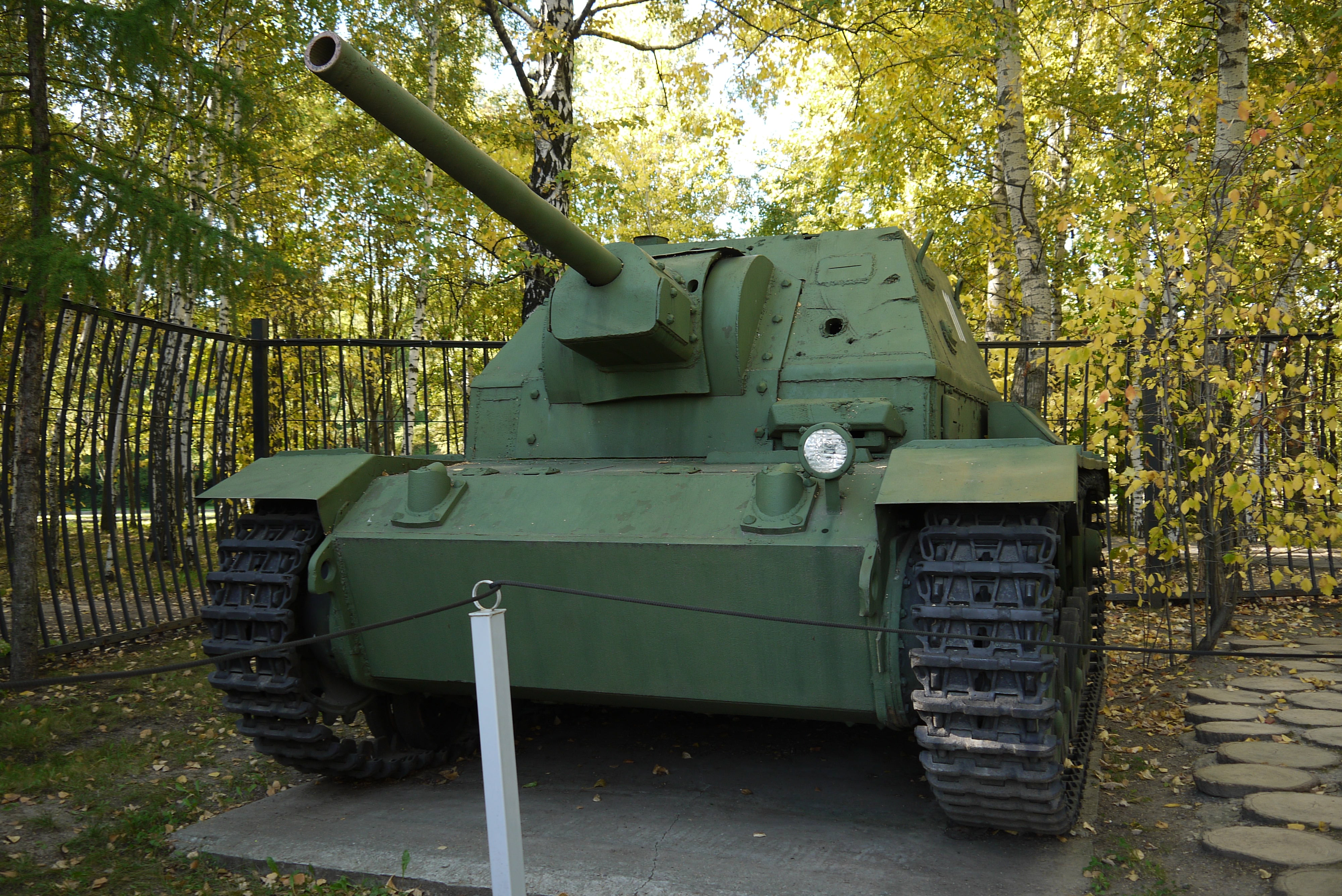 Soviet Su-76i self-propelled gun, built from a German Mark III tank. It is displayed in the Museum of the Great Patriotic War, Moscow, Poklonnaya Hill Victory Park